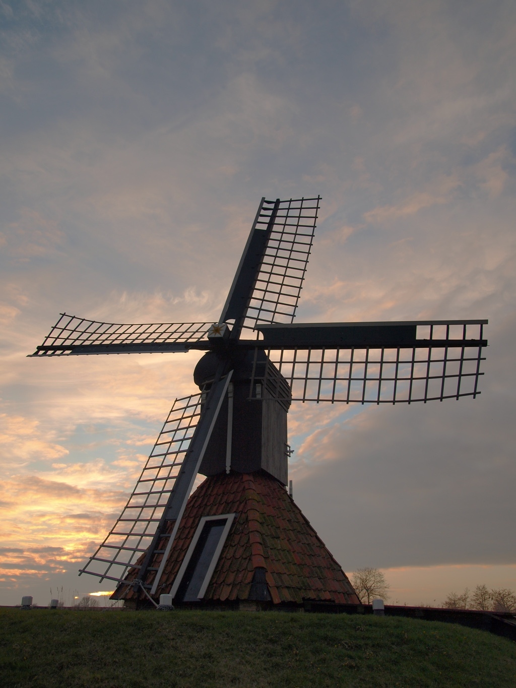 Windmill "De Haensmolen" at the island "De Bird", close to Grou, Friesland